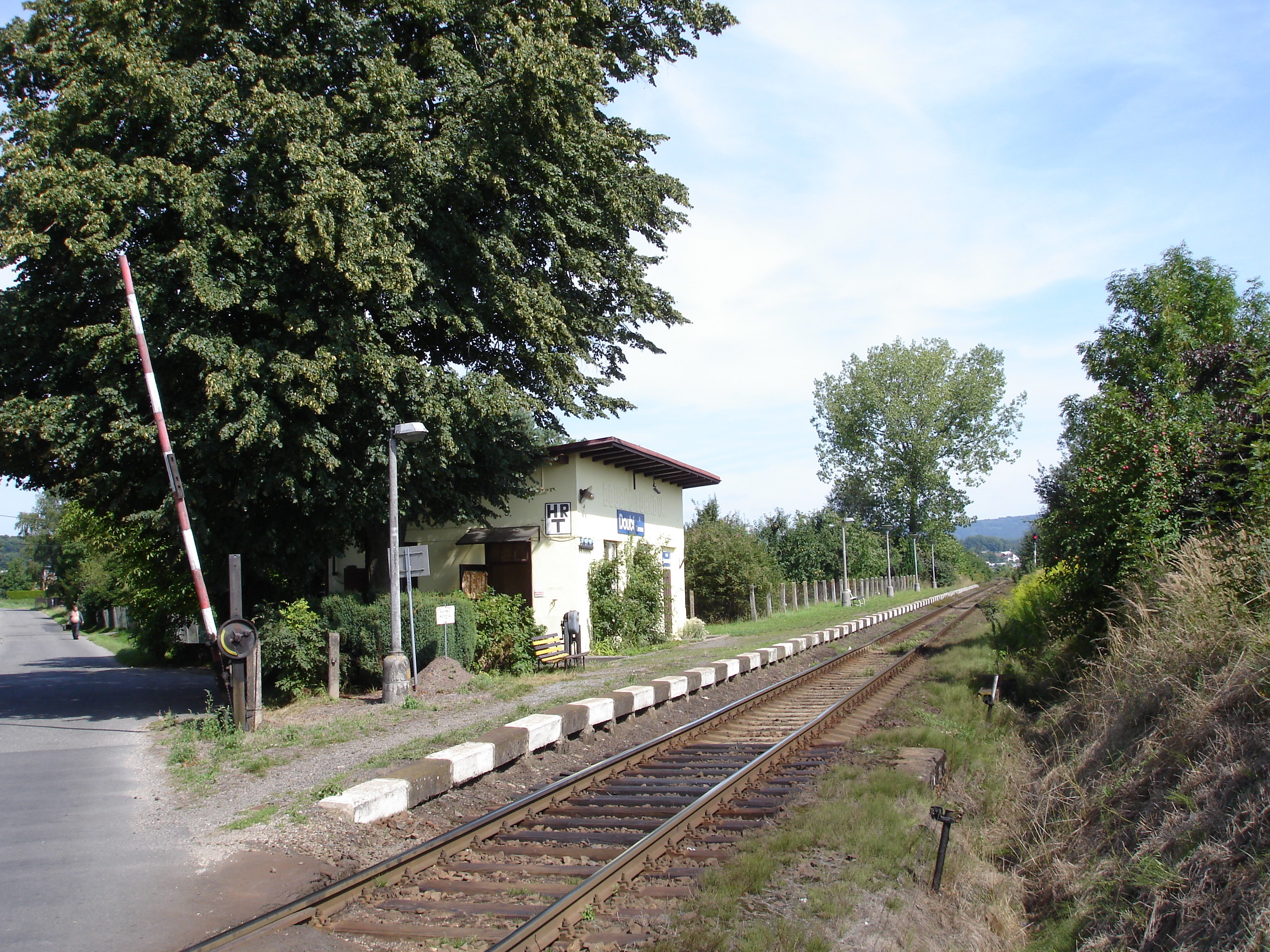 Train stop Doubí u Turnova, Czech Republic